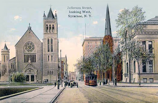 Jefferson Street in Syracuse, New York looking West - Immaculate Conception Church to the left - about 1910